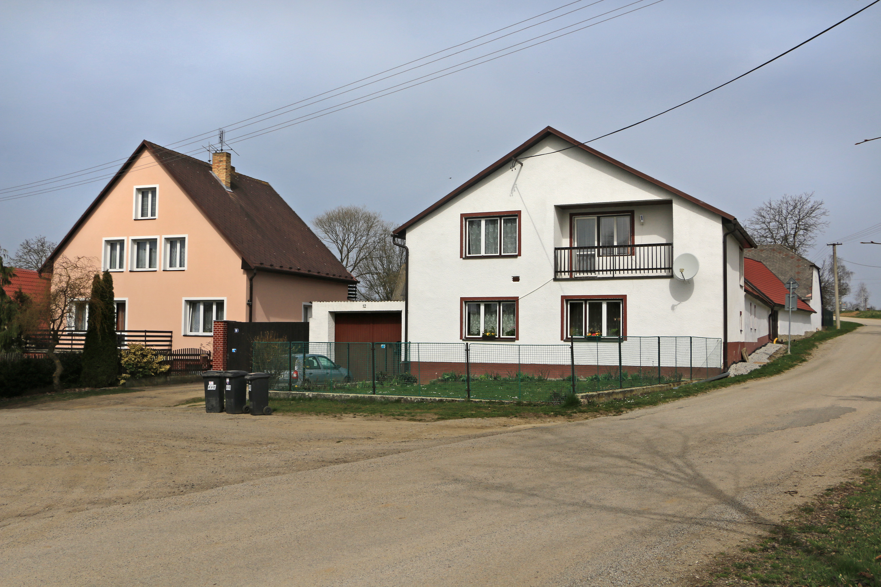 North part of Vícemil village, Czech Republic.